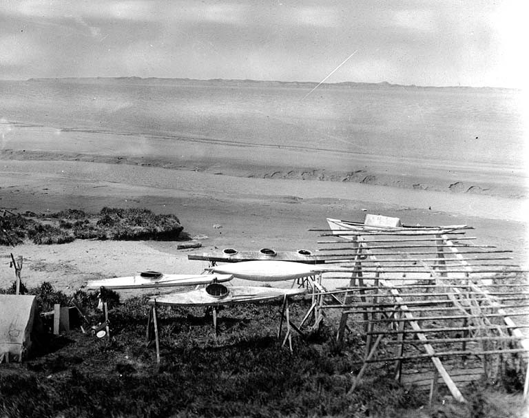 From John Cobb field notebook: Native bidarkas, Igegak . Fish drying racks shown to the right. Subjects (LCTGM): Eskimos--Subsistance activities Subjects (LCSH): Eskimos--Transportation; Bidarkas--Alaska--Egegik; Fish drying--Alaska--Egegik